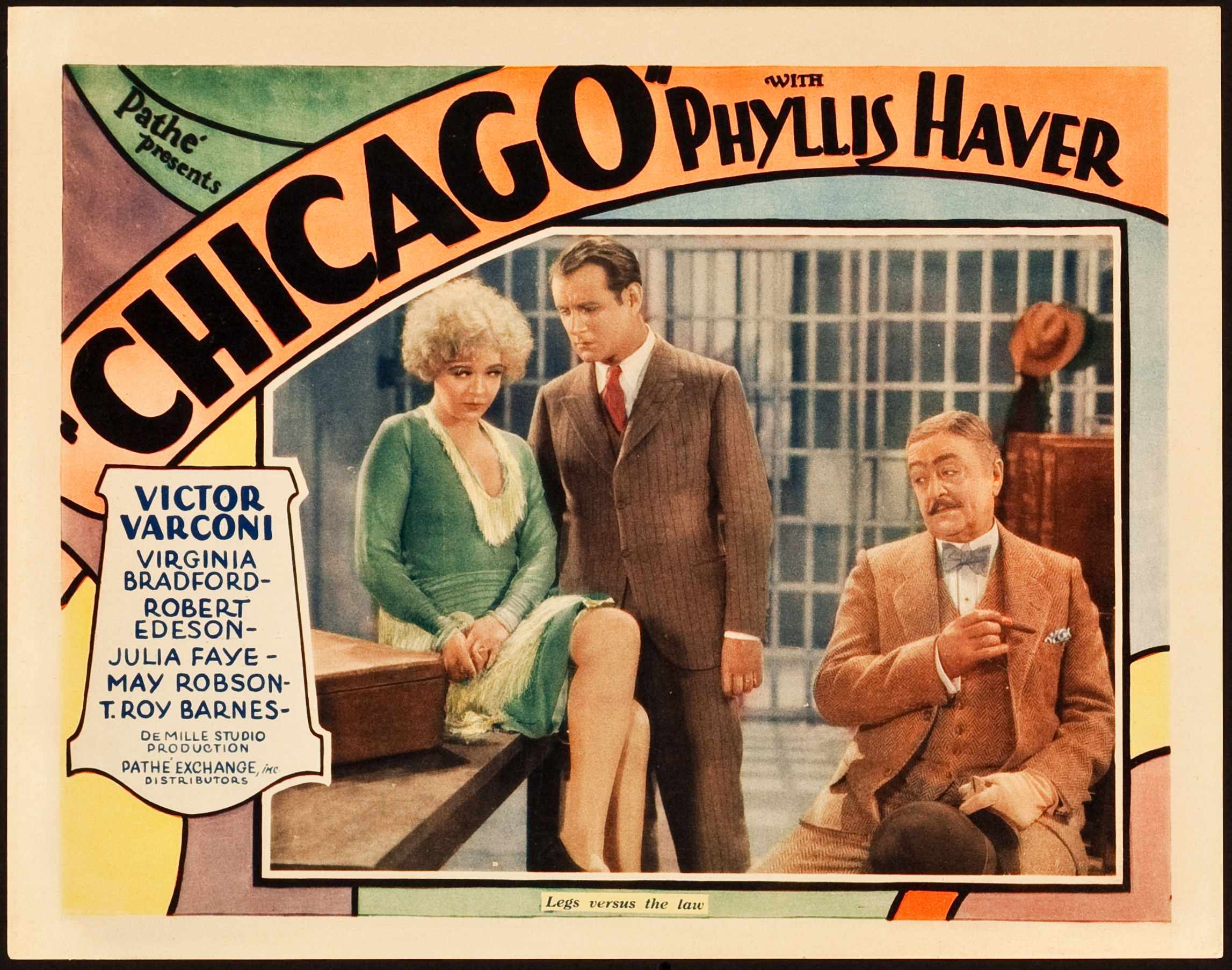 Lobby card for the 1927 film Chicago. The item has no copyright markings on it as can be seen in the links above.